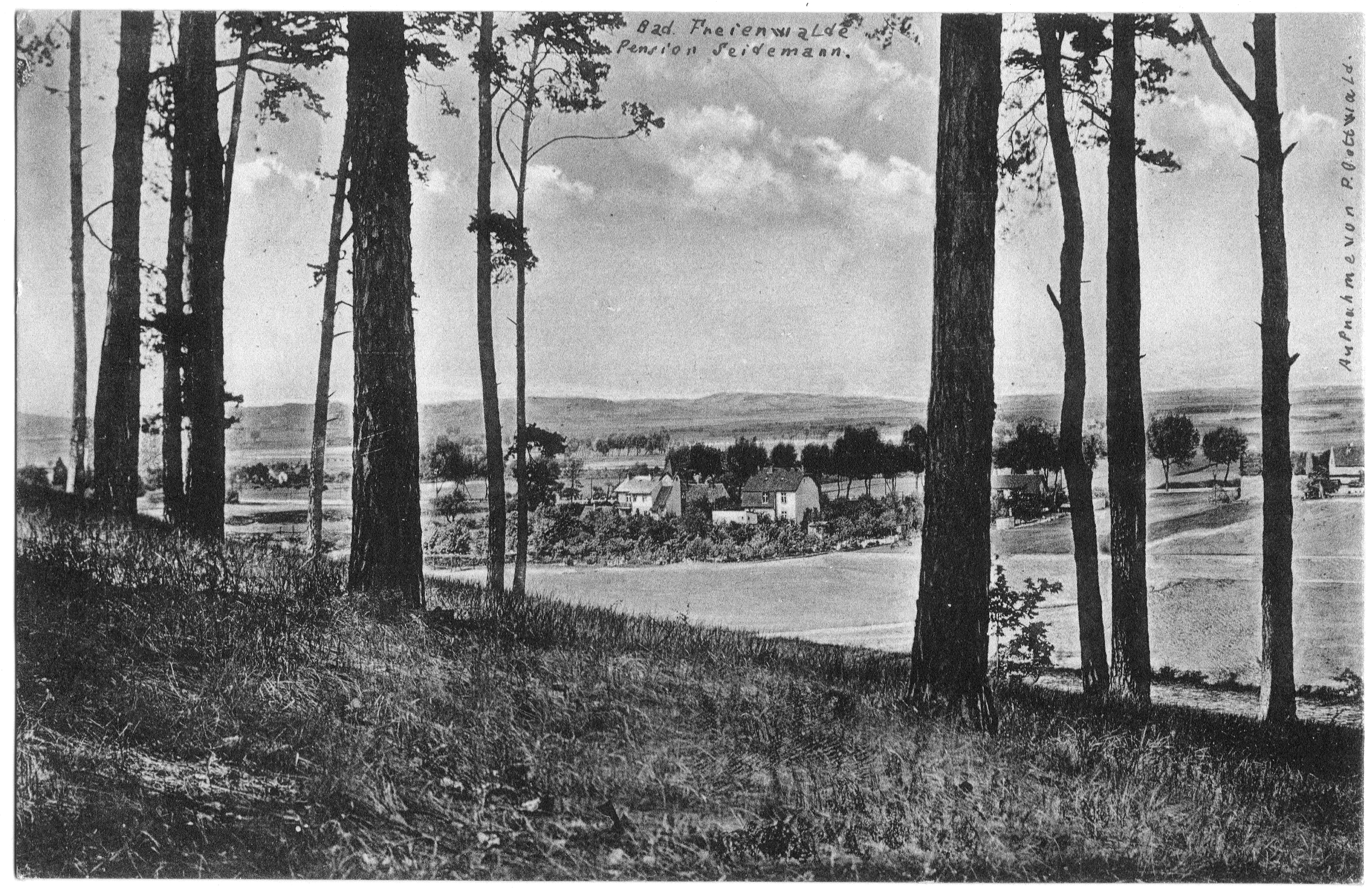 Postcard 1912, Photographer Paul Gottwald, Neuköln, Vegetarisches und Diät-Erholungsheim „Hoffnung“, Bad Freienwalde (Oder), 14.11.1912